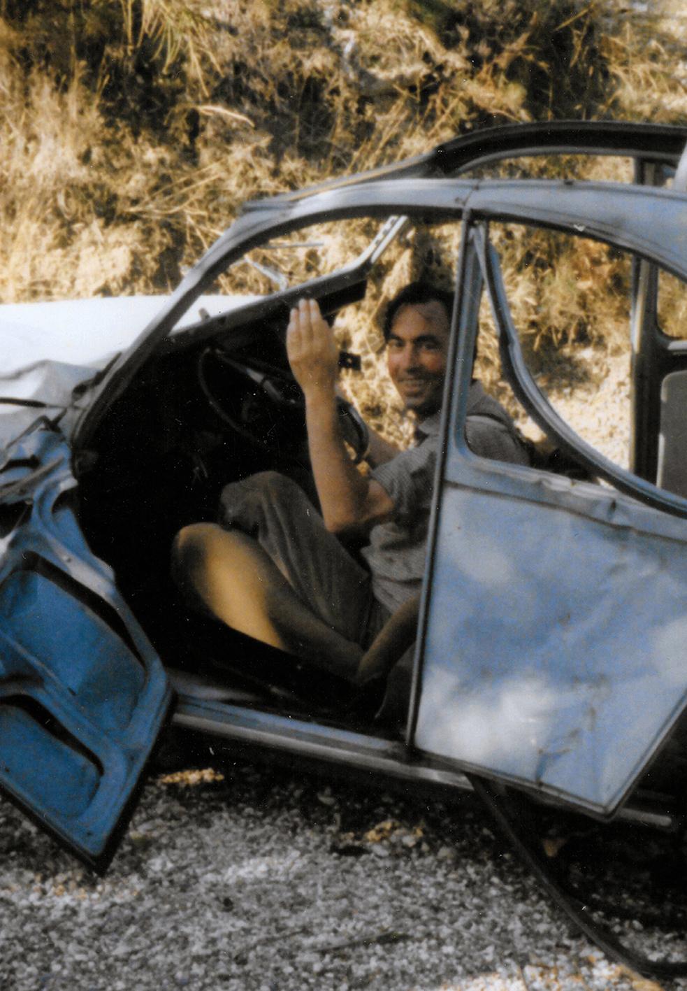 Christian Saalberg, Provence 1983